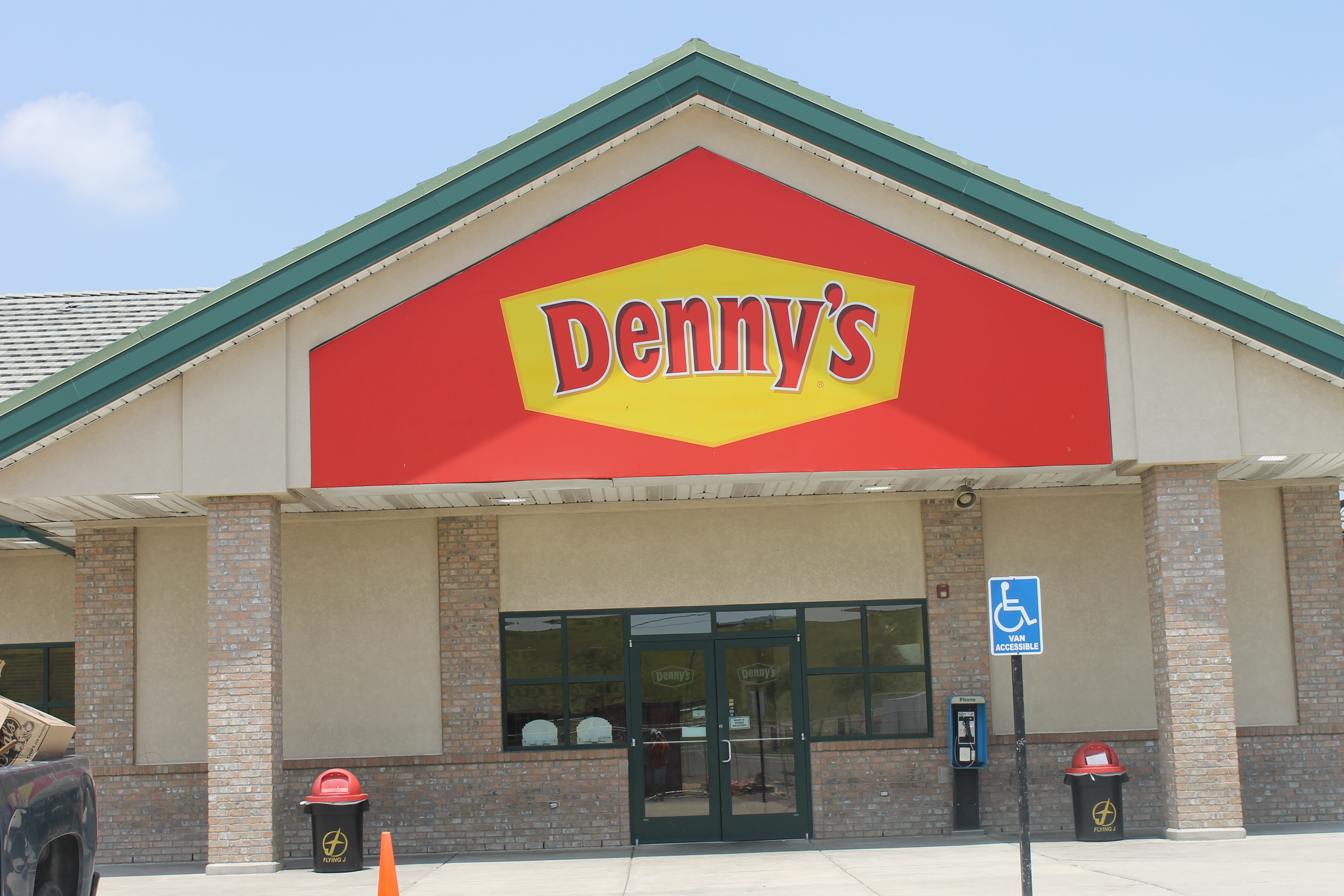 I took photo of Denny's Restaurant north of Laredo, TX, with Canon camera.